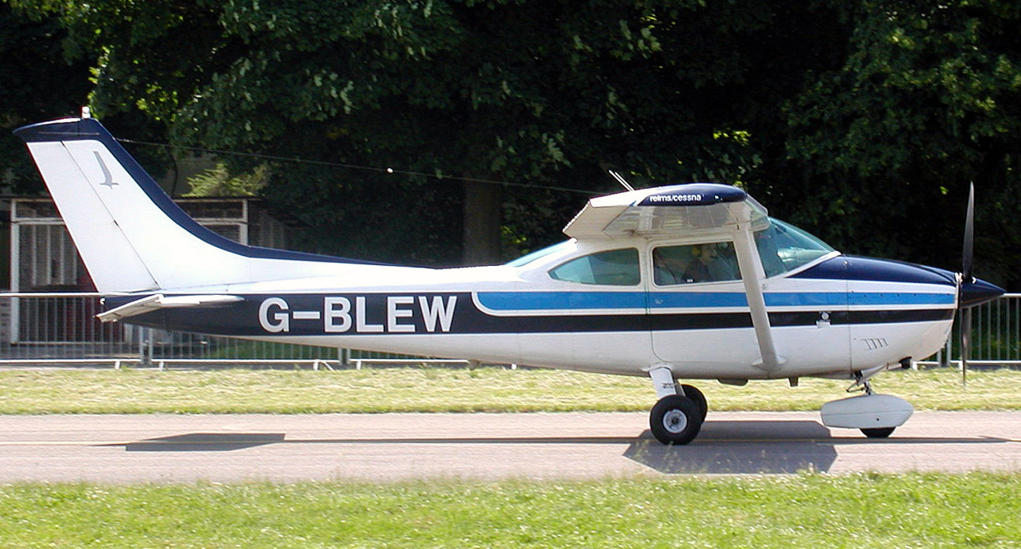 1977 Reims Cessna F182Q (G-BLEW) at Kemble airfield, Gloucestershire, England. Photographed by Adrian Pingstone in June 2003 and placed in the public domain. Derived - edit from original placed in public domain.